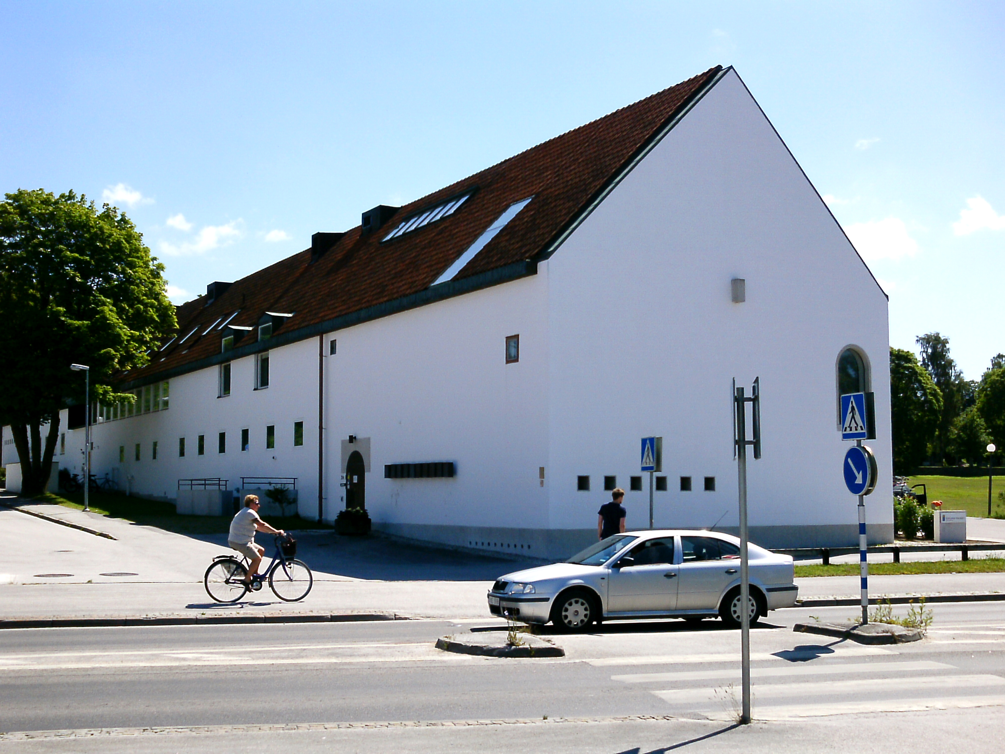 Gotland Court house, Visby, Sweden.